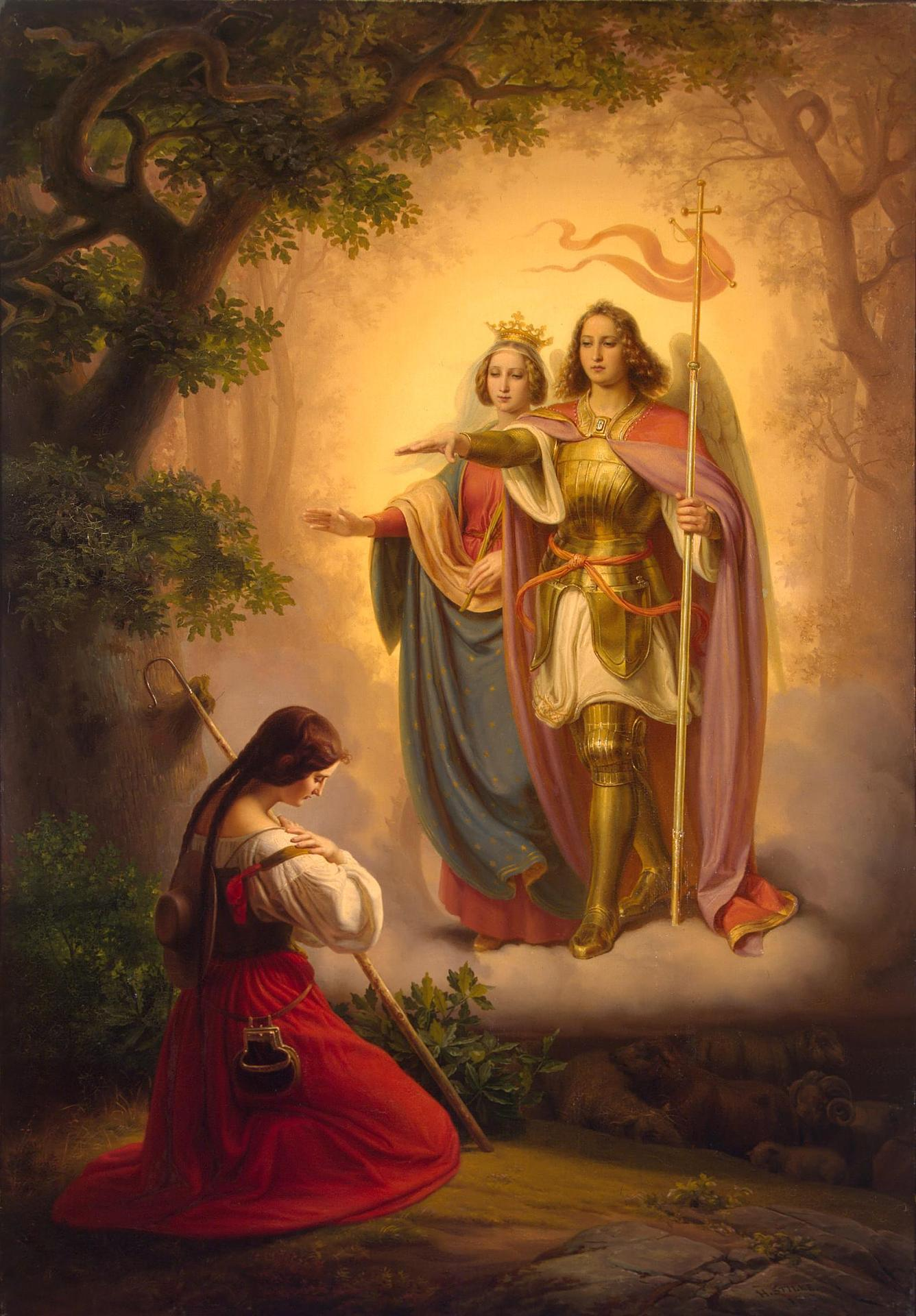 Left-Hand Part of The Life of Joan of Arc Triptych